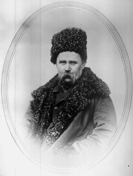 Taras Shevchenko, St. Petersburg.